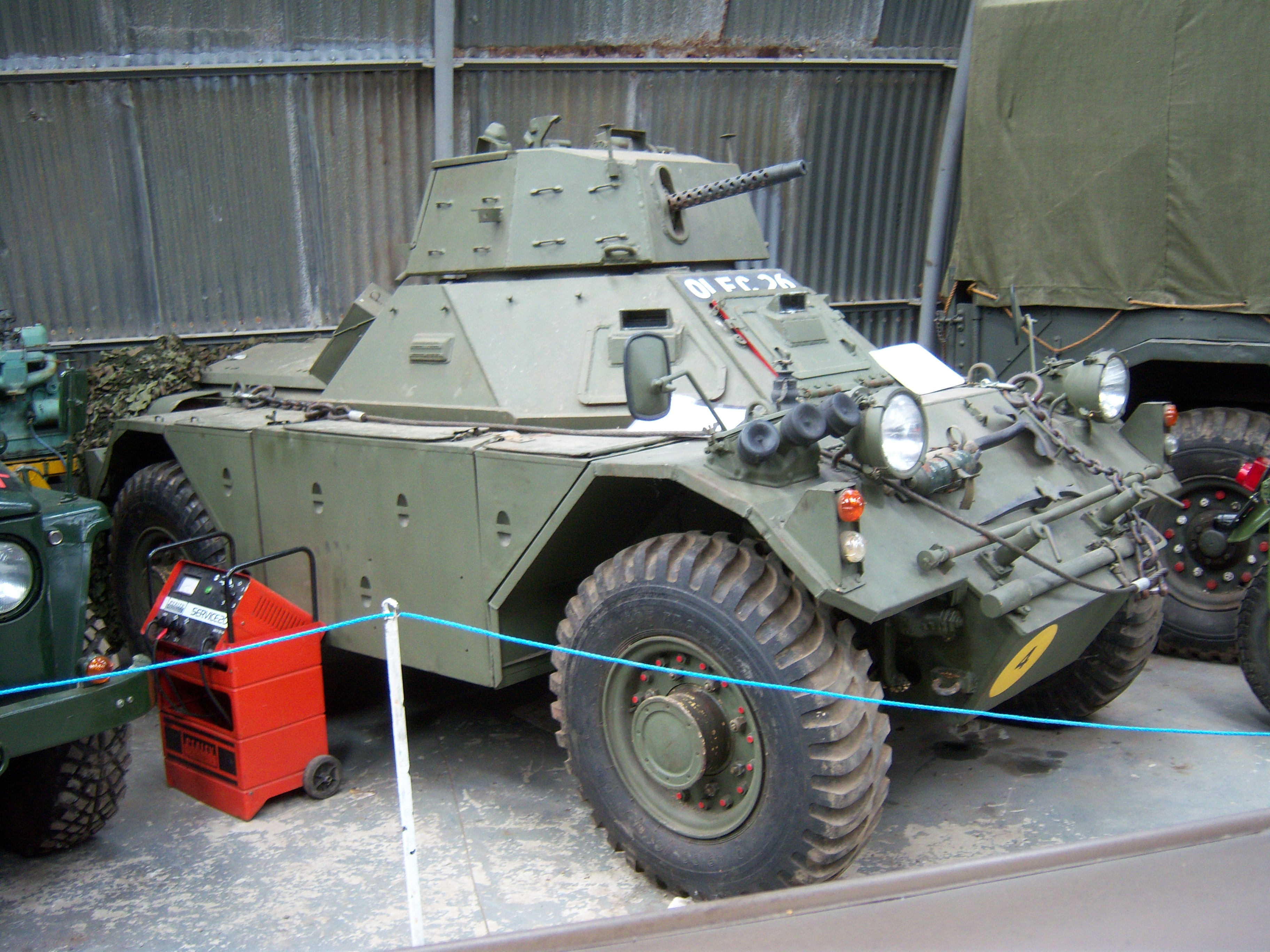 Seen at the NELSAM site in Sunderland.